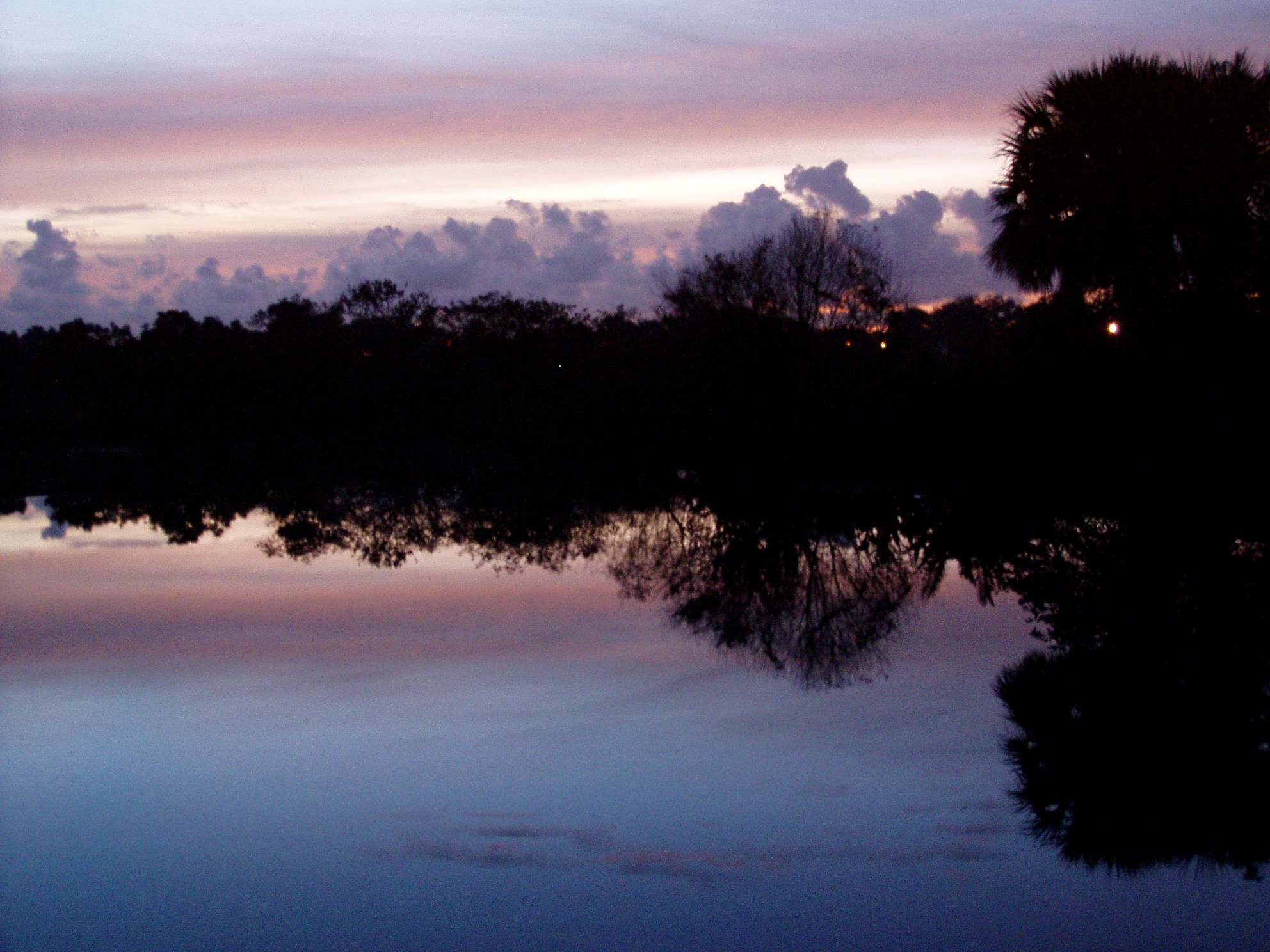 Sunrise at Wakodahatchee Wetlands.